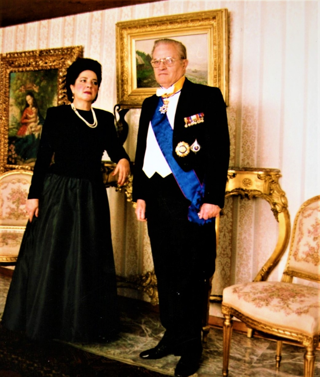 Ismael Moreno Pino, a former Mexican Ambassador in the Kingdom of the Netherlands (1986-90), wears the insignia of the Order of Orange Nassau, along with other honours acquired throughout his diplomatic career.